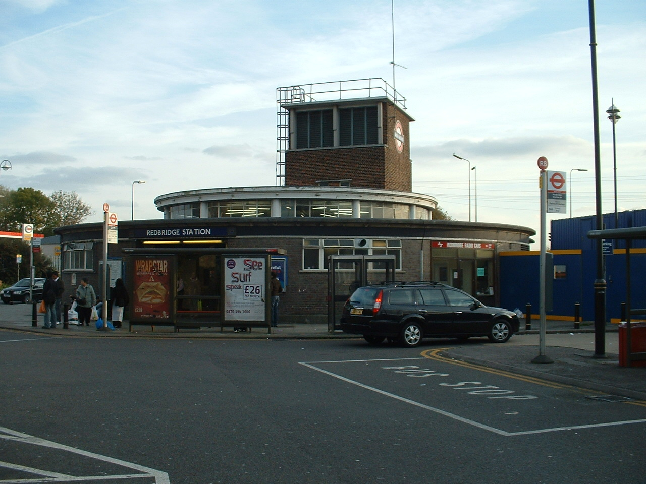 View of Redbridge tube station building, at the NE corner of Redbridge Roundabout (A12/A406). Sunil060902, 4th November 2007.